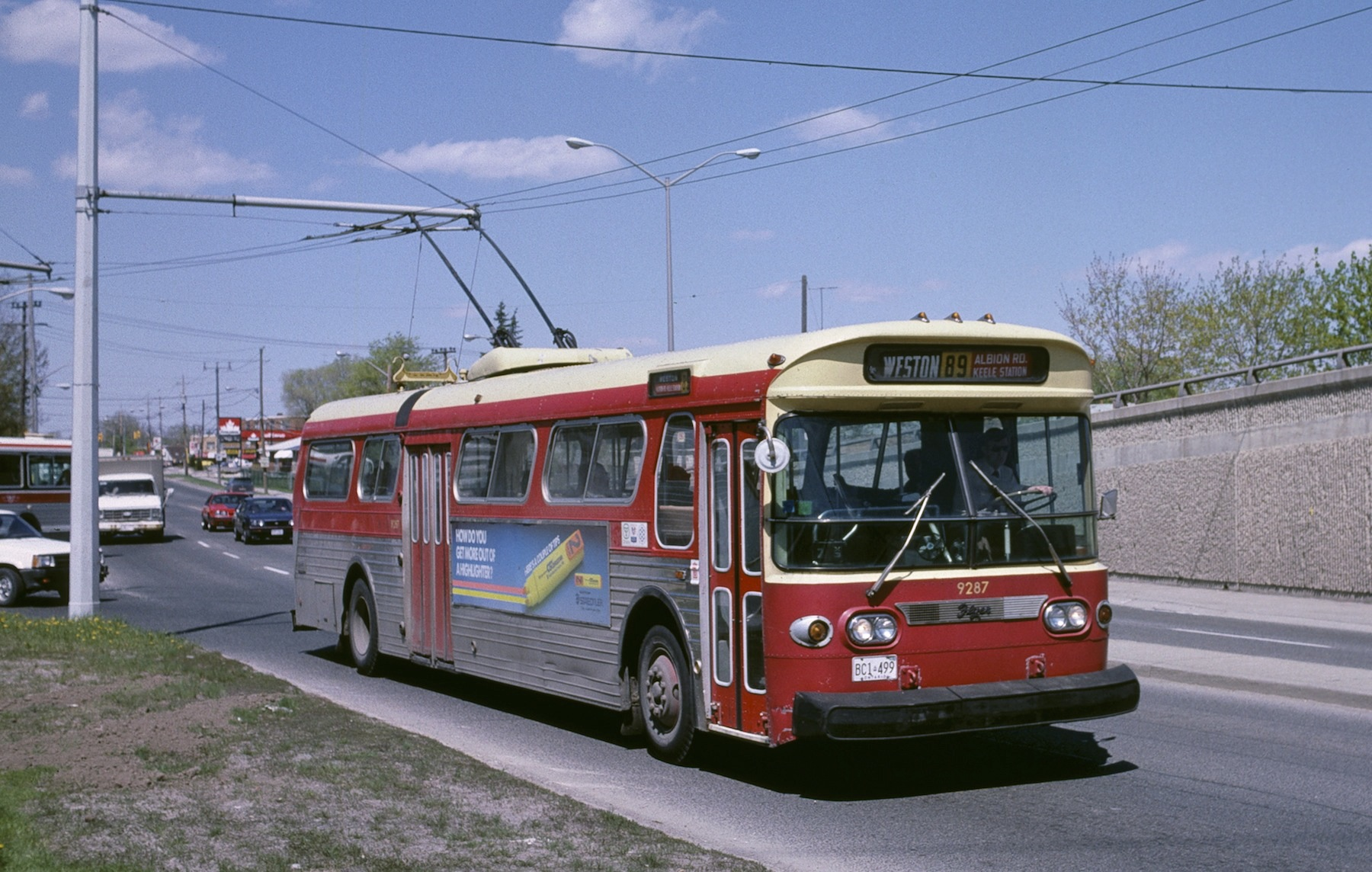 Toronto Transit Commission trolleybus 9287 on route 89-Weston Road in 1987, in Toronto, Ontario. It is travelling south on Weston Road just north of Albion Road/Walsh Avenue, starting a new trip on route 89. The vehicle was built in 1972 by Flyer Industries Ltd. (which later became New Flyer Industries), but fitted – by the TTC's own staff – with recycled electrical equipment taken from 1947/48 CCF-Brill trolleybuses being retired. Route 89 reached this location when a very short extension of the 1948-opened route came into use, in April 1973. Toronto's Flyer trolleybuses were withdrawn in January 1992, and service on route 89 also ended permanently in that month. The last trolleybus service in Toronto (routes 4 and 6) ended in July 1993.